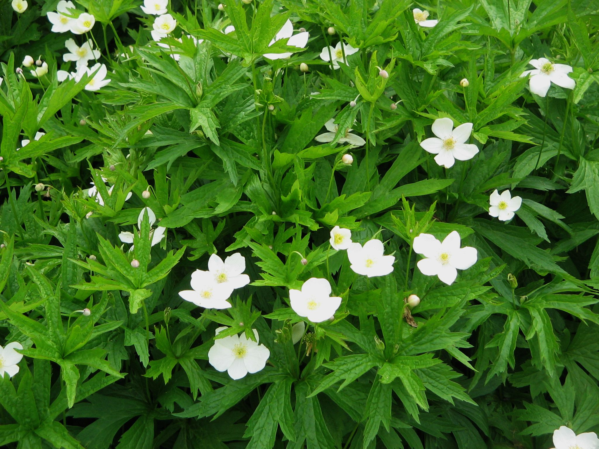 Anemone canadensis